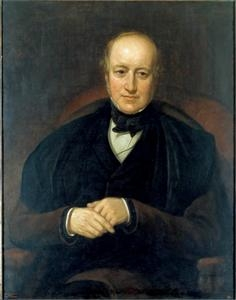 Portrait of Joseph Hodgson (1788 - 1869), British surgeon